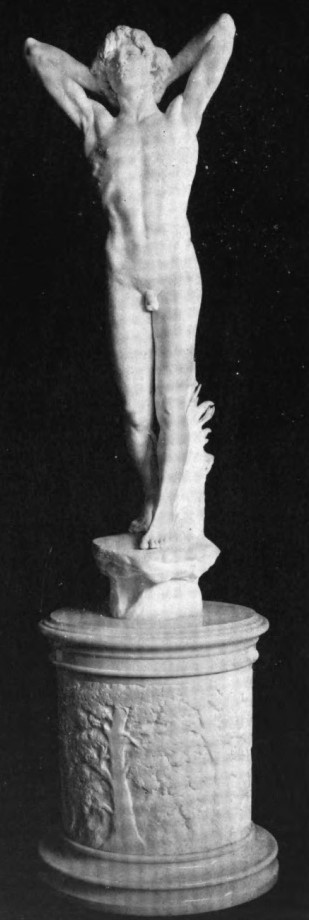 A photo of a marble sculpture by Emma Cadwalader-Guild.